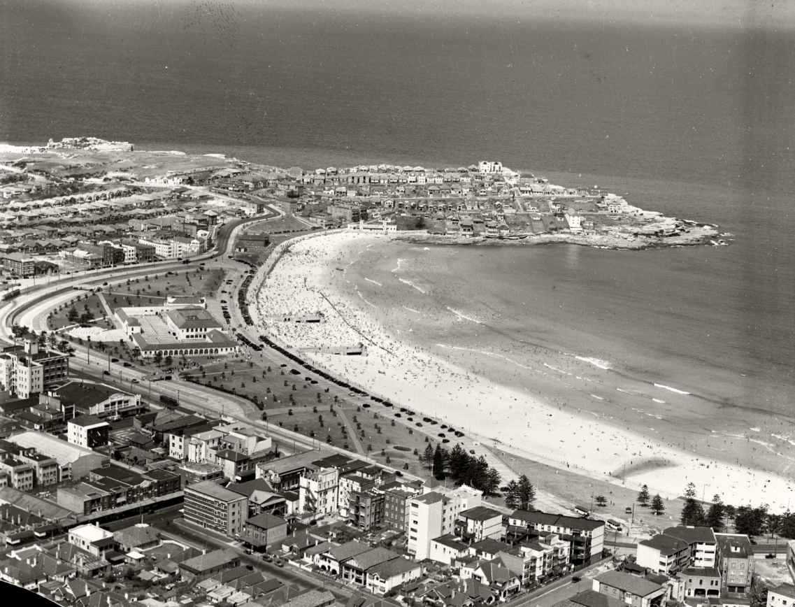 [RAHS/Adastra Aerial Survey Collection]